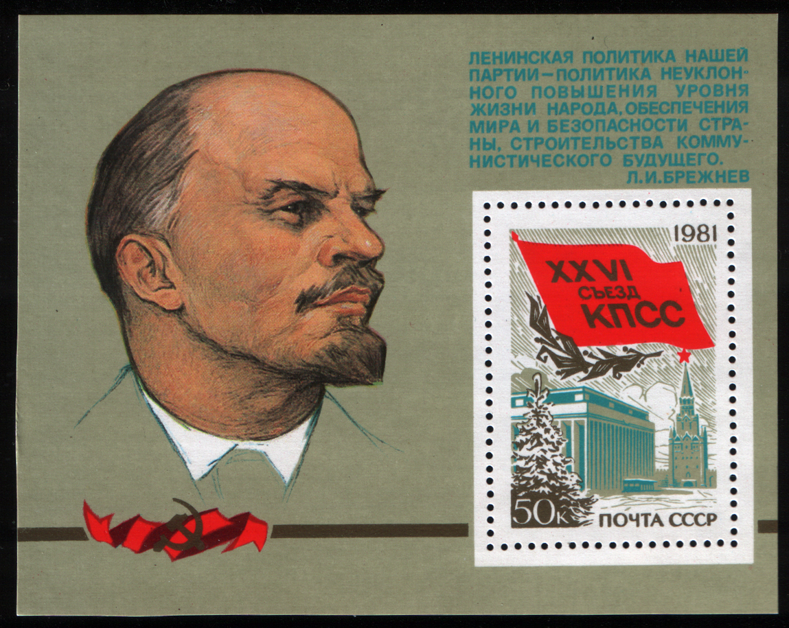 The stamp of the Soviet Socialist Republic devoted to XXVI congress of the CPSU, 1981, 50 k.